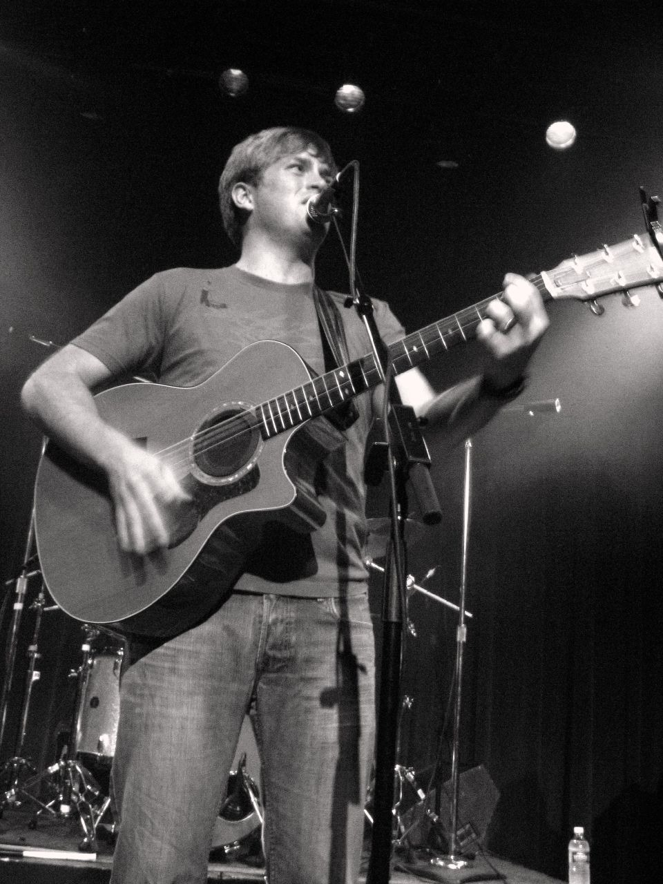 Dave Barnes performs in Birmingham, Alabama